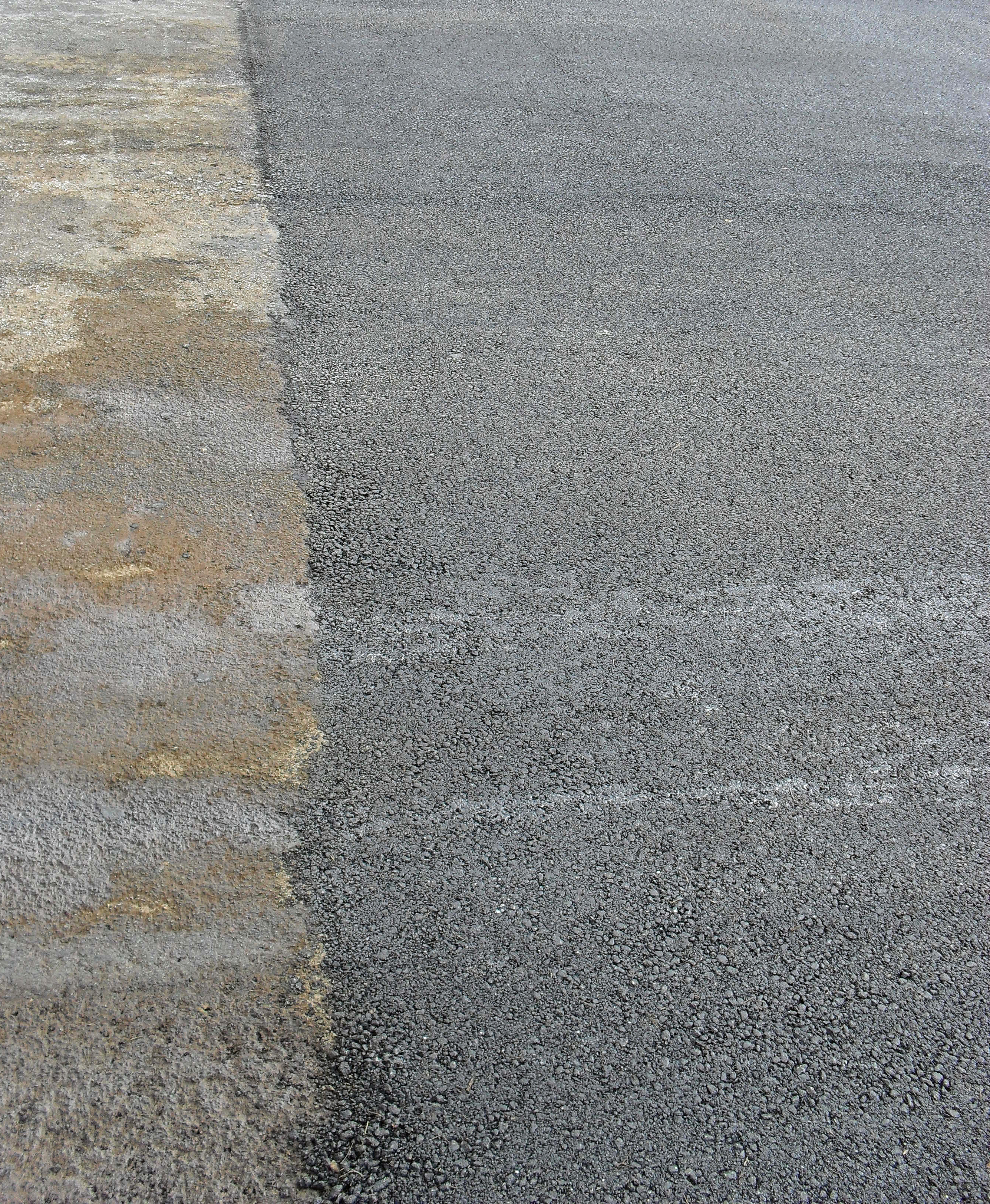 Old and new Asphalt.